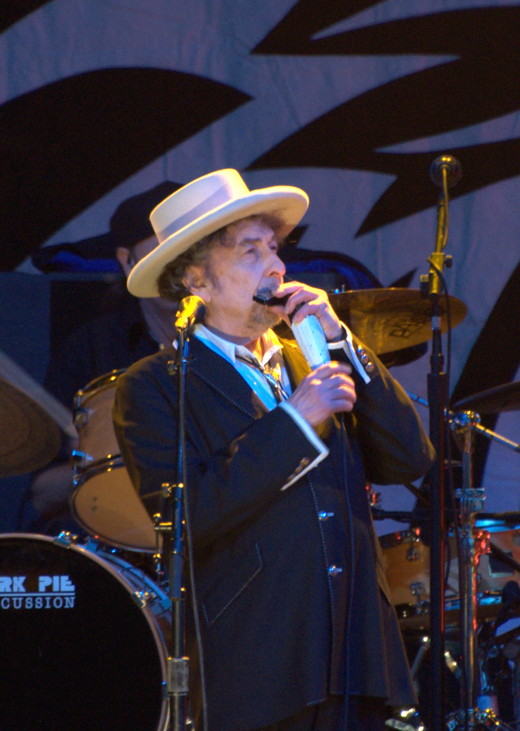 Bob Dylan performing at Finsbury Park, London, June 18, 2011